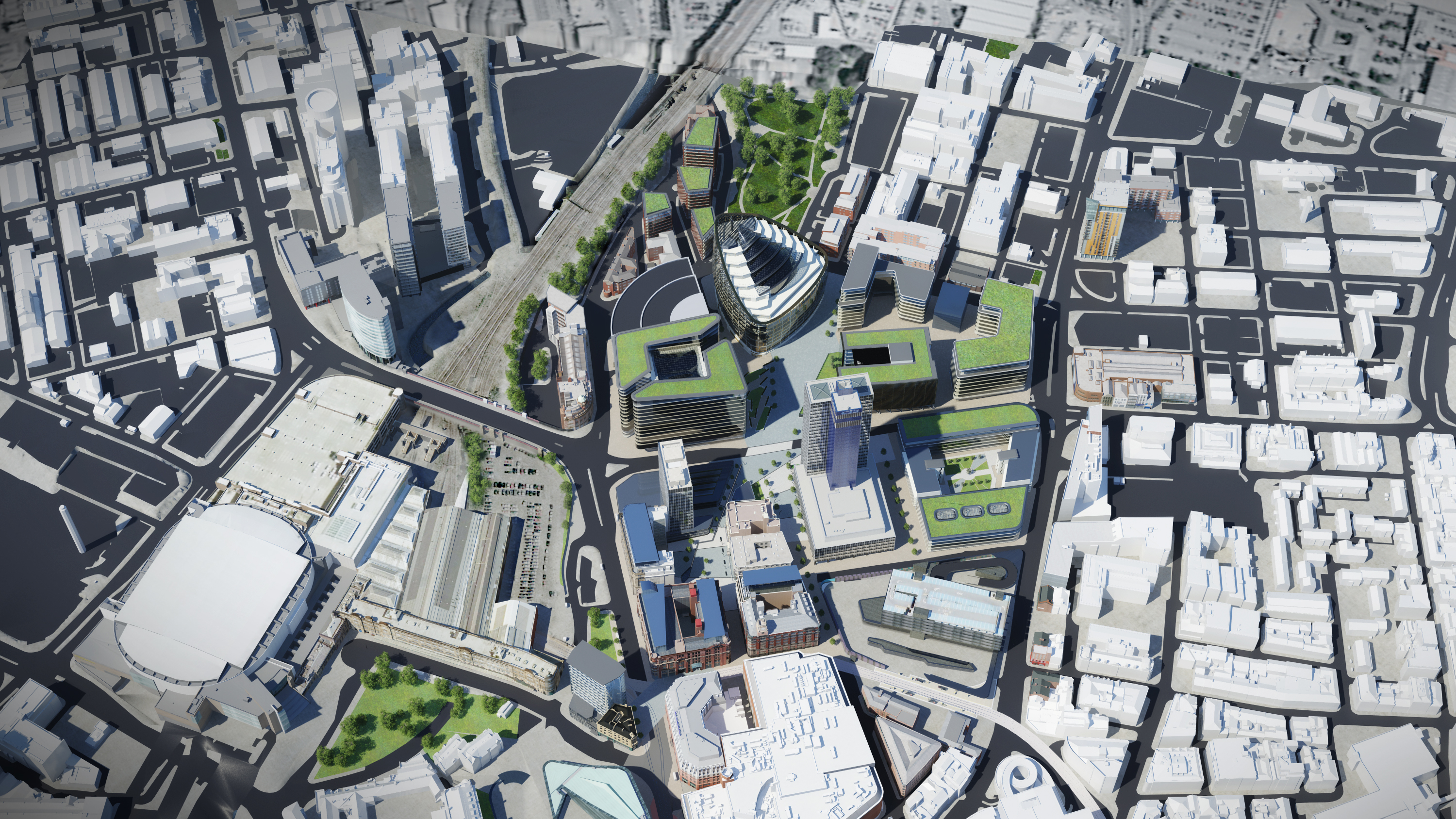 Aerial CGI still of NOMA redevelopment NOMA is a £800 million project set to transform 20 acres of Manchester City Centre’s heartland into a development like no other, providing 4m sq ft of office, retail, residential and leisure space. Backed by The Co-operative Group and our reputation for corporate social responsibility, NOMA will be underpinned by the same values and commitment to community and the environment that will make our new head office such a landmark. The wider project will attract new investment and employment to the city centre and create opportunities for new training and skills for local residents. NOMA will confirm Manchester as the UK’s original modern city, and confirm its position in the European premier league of cities. NOMA will take advantage of the Group’s unique land ownership in the city centre to deliver a progressive and integrated regeneration project over a 10 – 15 year period.